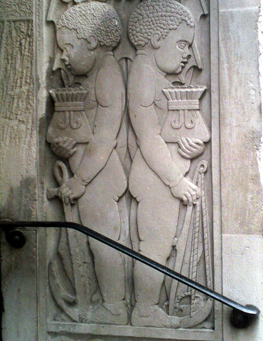 Detail of relief at entrance of Martins Bank building, Water Street, Liverpool, showing two African boys manacled at the neck and ankle, carrying money bags.